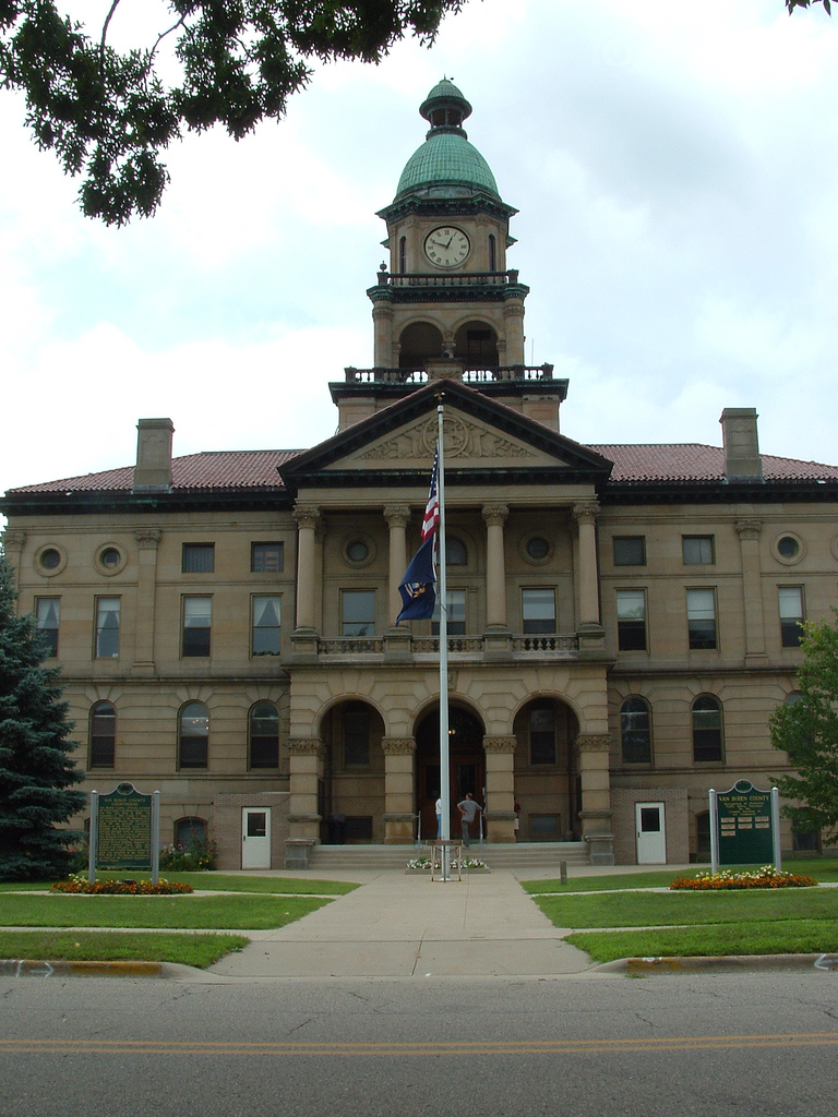 The Van Buren County Courthouse located in Paw Paw, Michigan. Neoclassical style architecture — on the National Register of Historic Places.